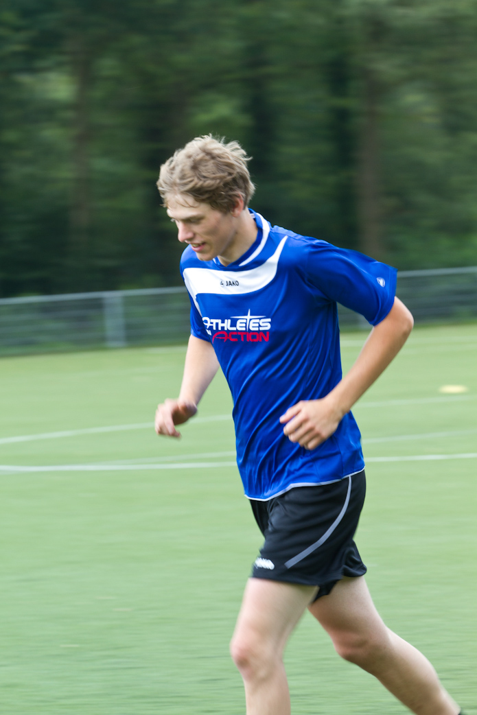 An athlete from one of the teams from Athletes in Action Holland.